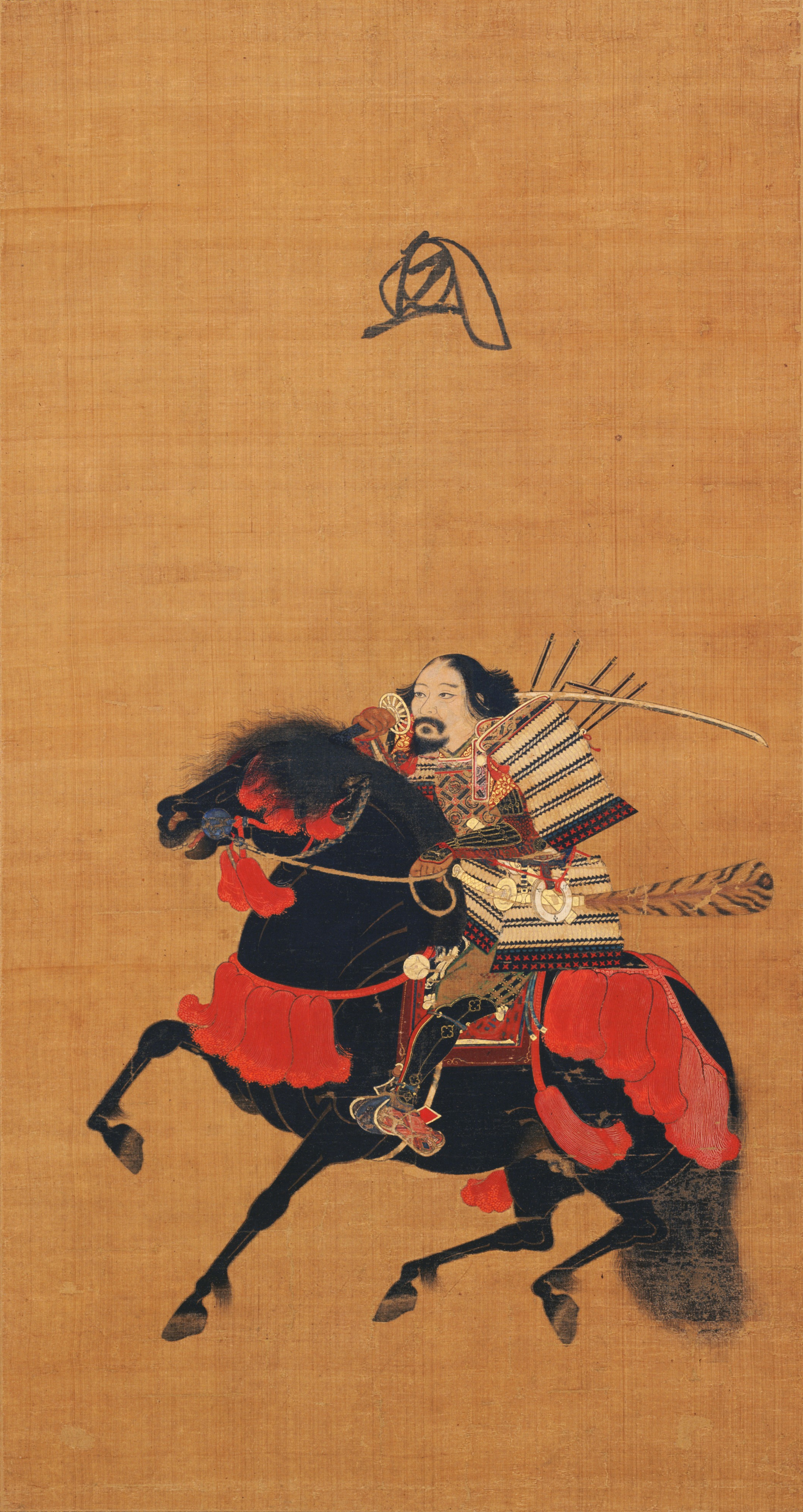 Mounted Warrior, Kyoto National Museum, Japan